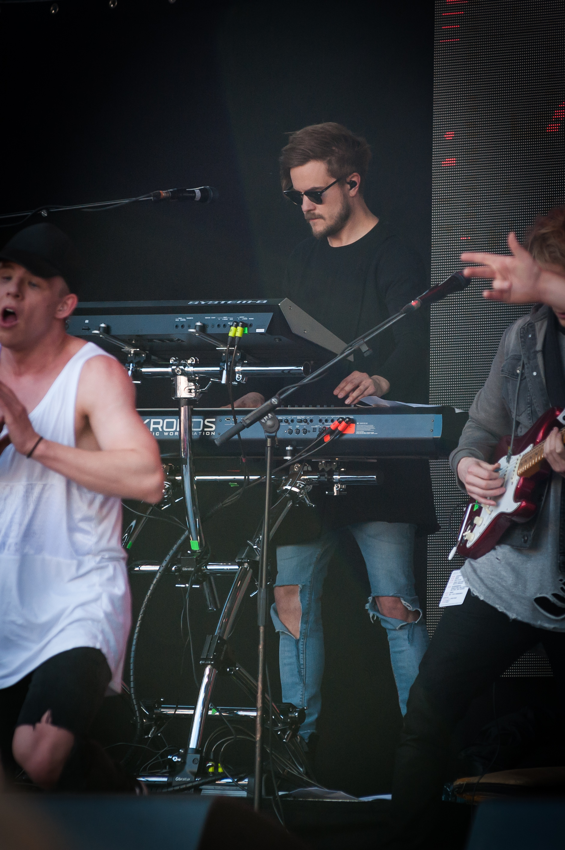 Finnish vocalist Isac Elliot performing at the 2017 YleX Pop festival in Lahti, Finland.